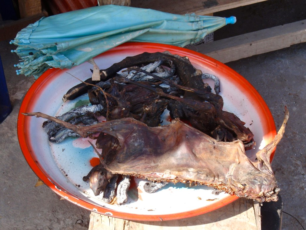 Barbecued bat, in food stalls at Udomxai Bus Station; Udomxai, Laos.